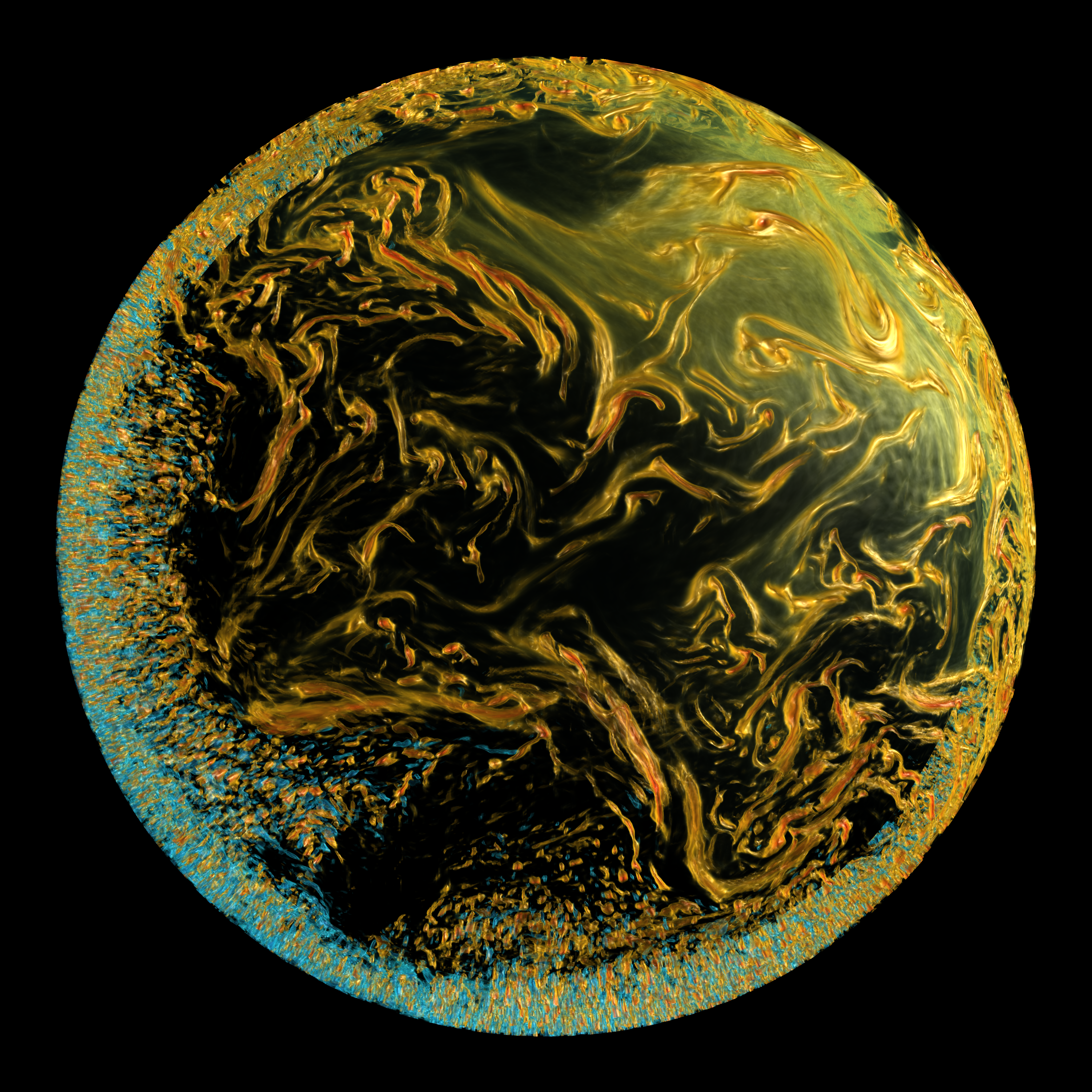 High quality volume rendering of atmosphere simulation at global scale based on Geodesic grid using Global Cloud Resolving Model (GCRM). The strength of the vorticity is being visualized